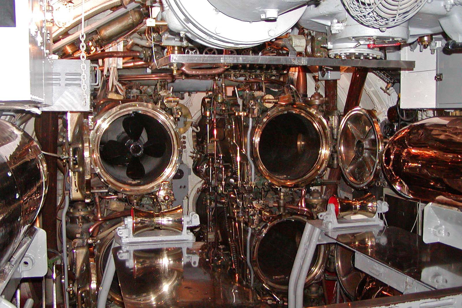 Photo of USS Bowfin (SS-287) torpedo tubes